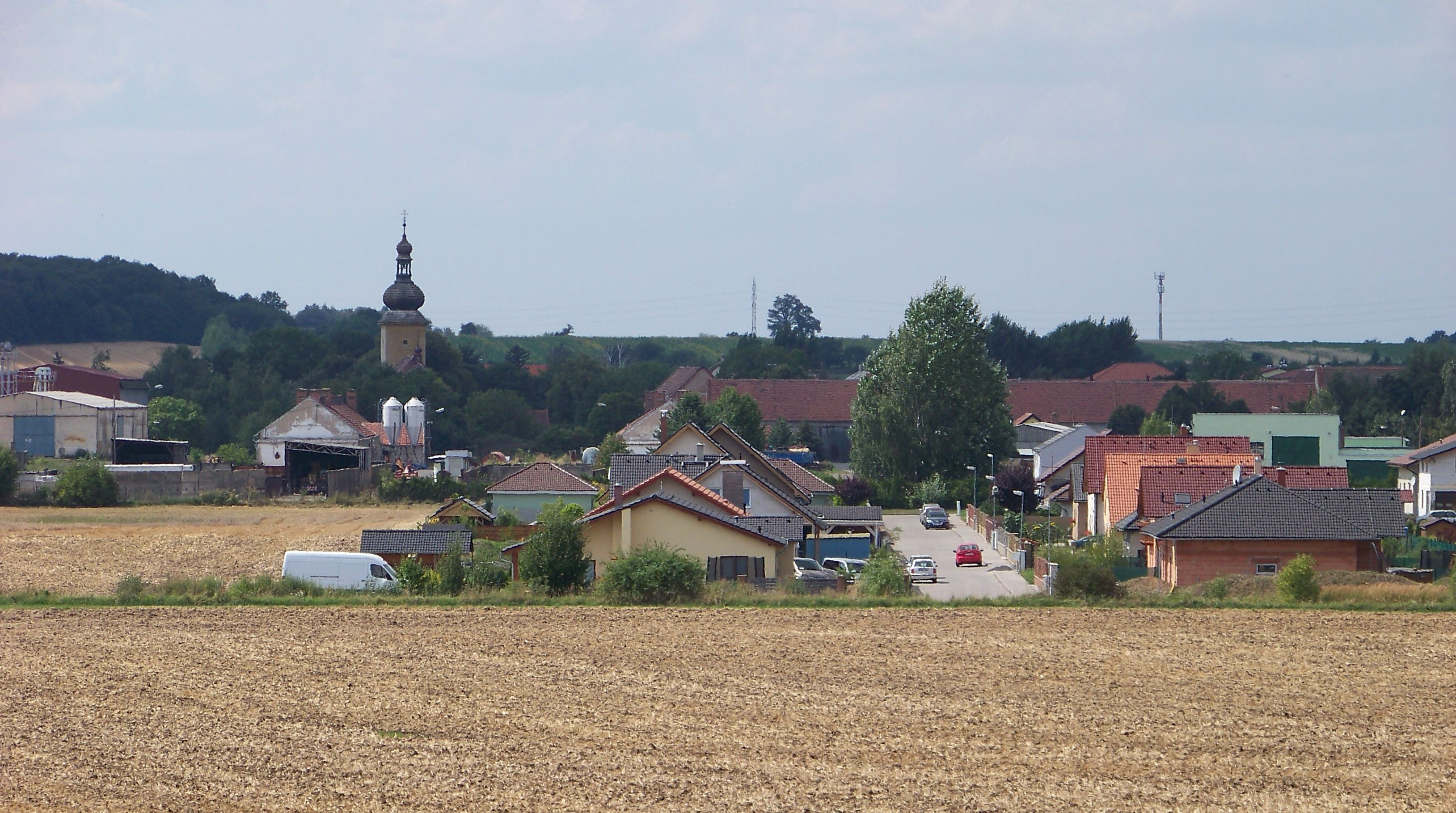 Tursko, Prague-West District, Central Bohemian Region, the Czech Republic. - OpenStreetMap(Info)